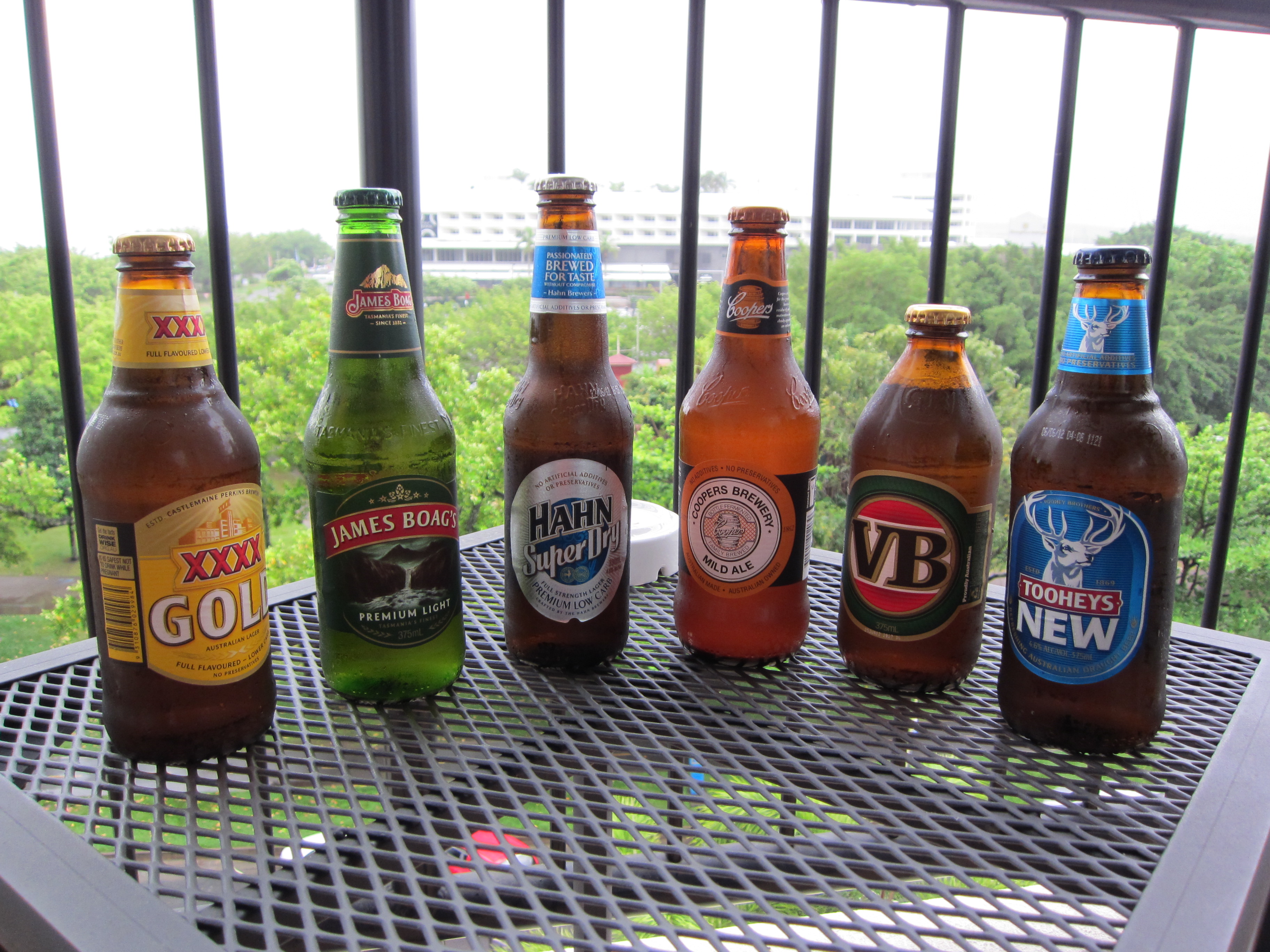 I'm a tourist and and I want beer but I am a stranger in this land. Turns out Woolworth's behind from where I was staying was having sale. Buy 6 bottles and save 20%. So I told the clerk I wanted some good Aussie beer but was clueless and asked him to pick some out and this is what I ended up with. I liked the XXXX Gold and the VB best and ordered them for the rest of the trip.